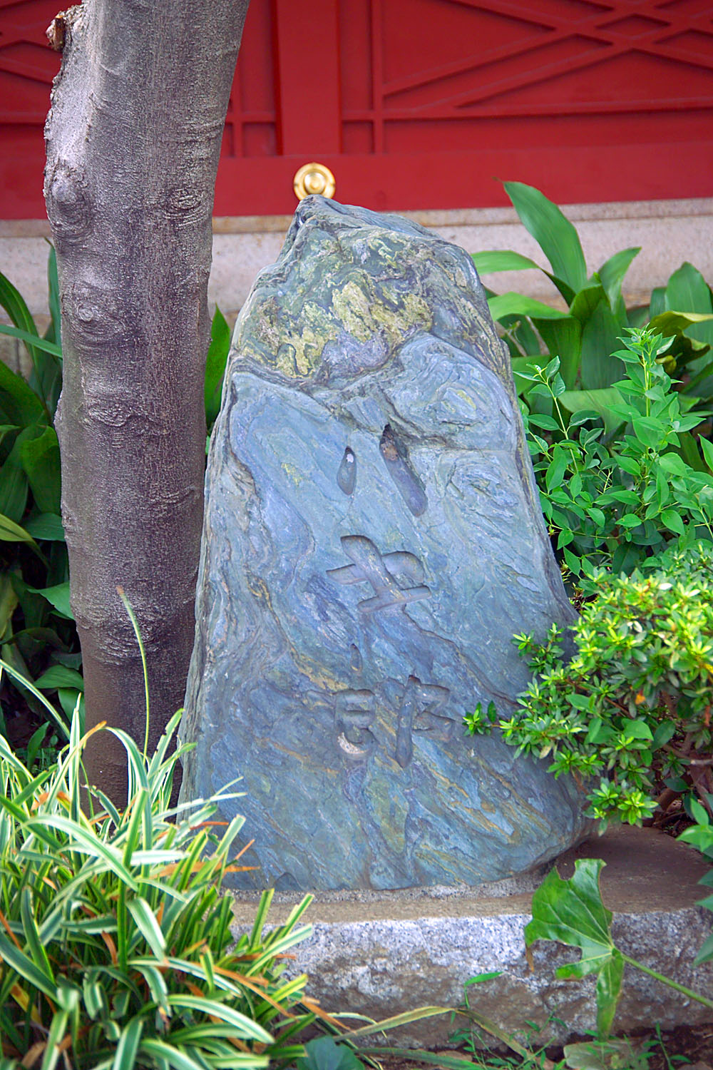 Monument to the character Hachigoro (Gara Hachi) from the jidaigeki Zenigata Heiji. Kanda Myojin Shrine, Bunkyo-ku, Tokyo, Japan.